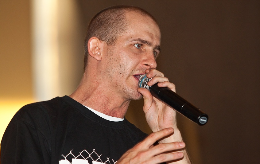 Polish rapper Eldo at Warsaw Challenge 2010